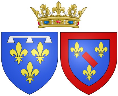 Arms of Louise Henriette de Bourbon as Duchess of Orléans